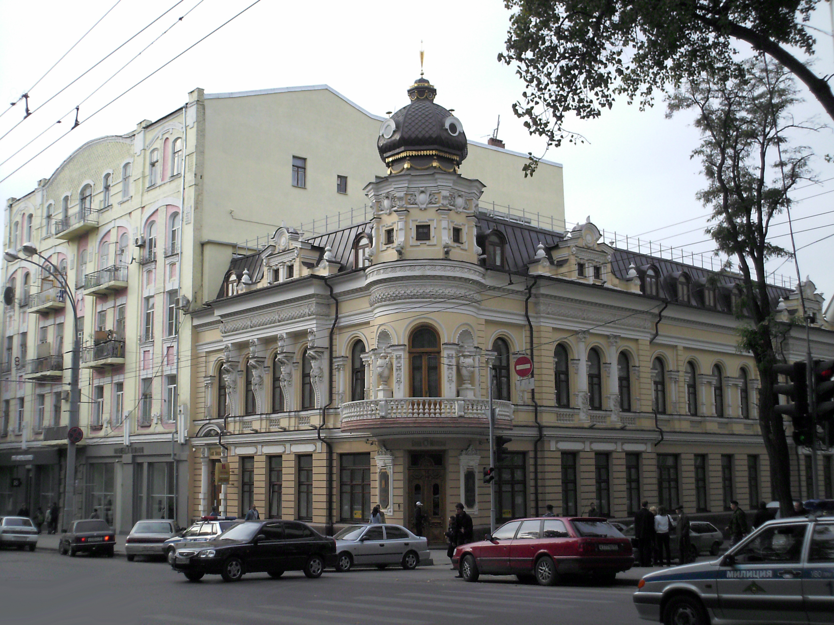 Rostov-on-Don, M. N. Chernovoy House (27 Bolshaya Sadovaya St), built in 1899 after a project by N. A. Doroshenko.